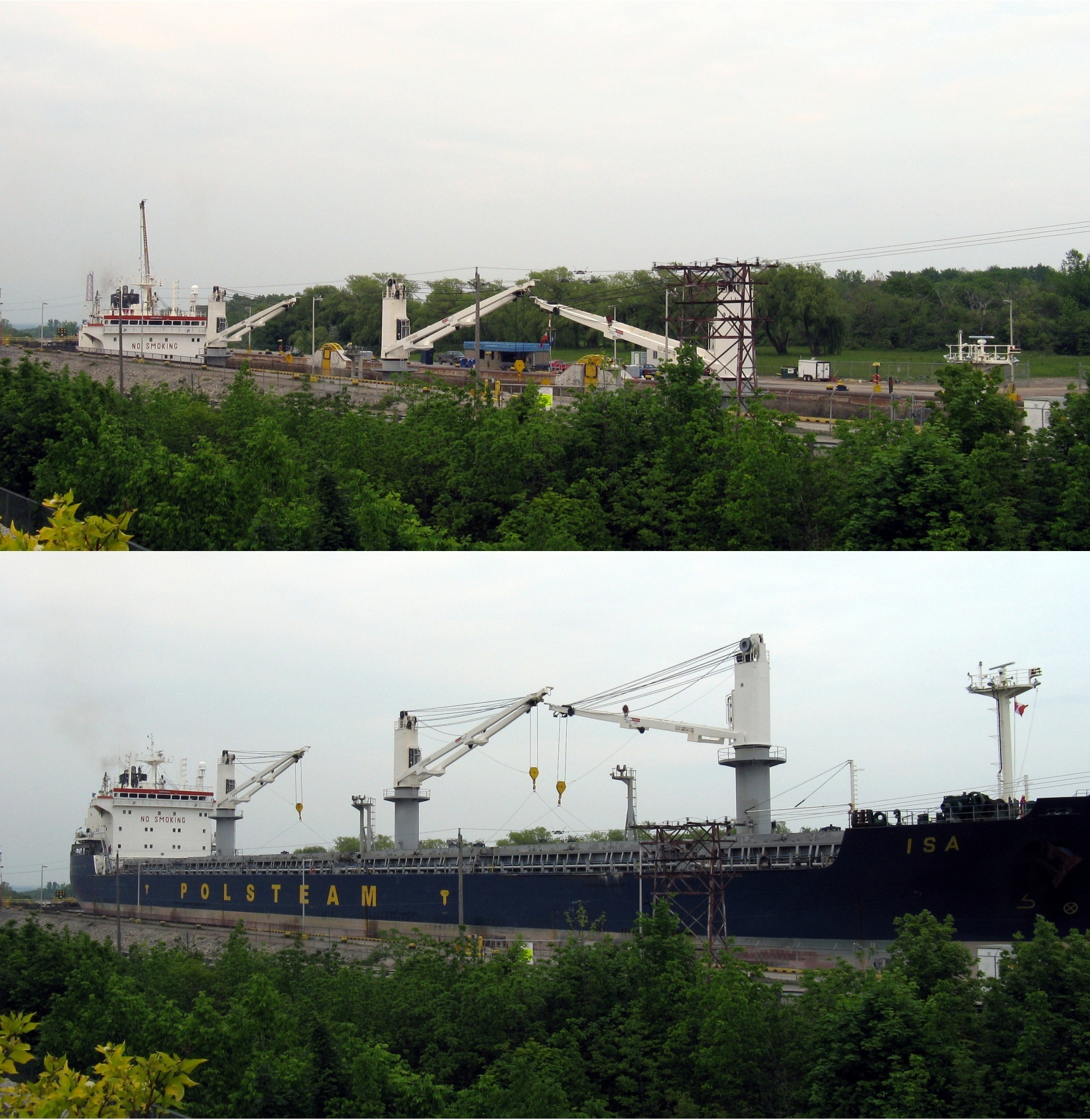 MS Isa in Lock 7 of Welland Canal in Thorold, Ontario. Before and after.